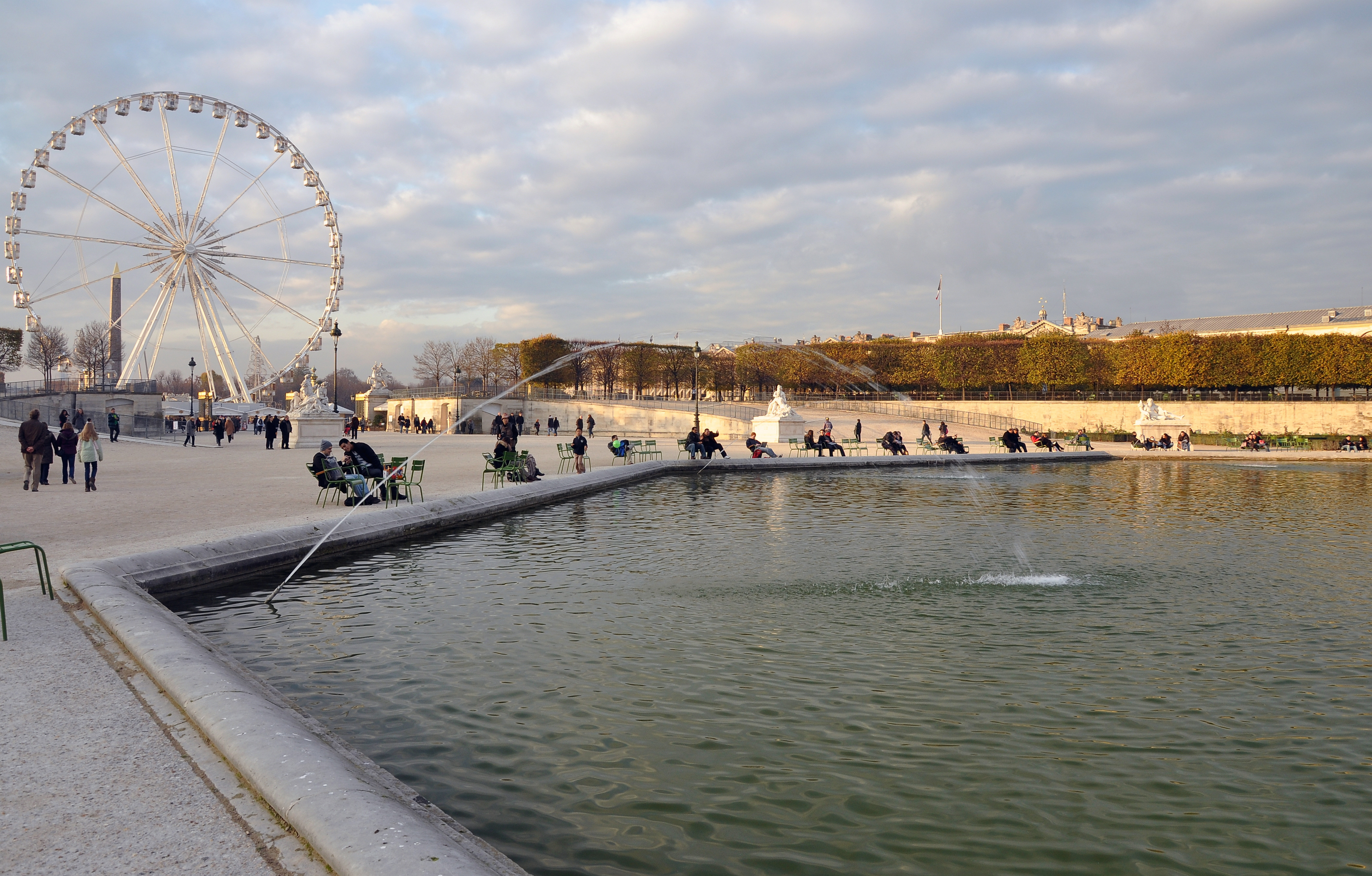 Octagonal basin in the Jardin des Tuileries at the 1st arrondissement of Paris, France.